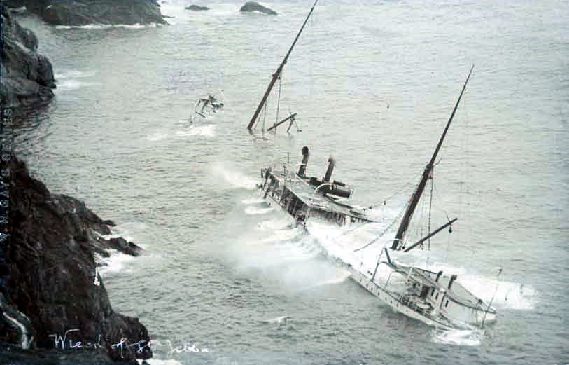 S.S. Jebba postcard - 1907